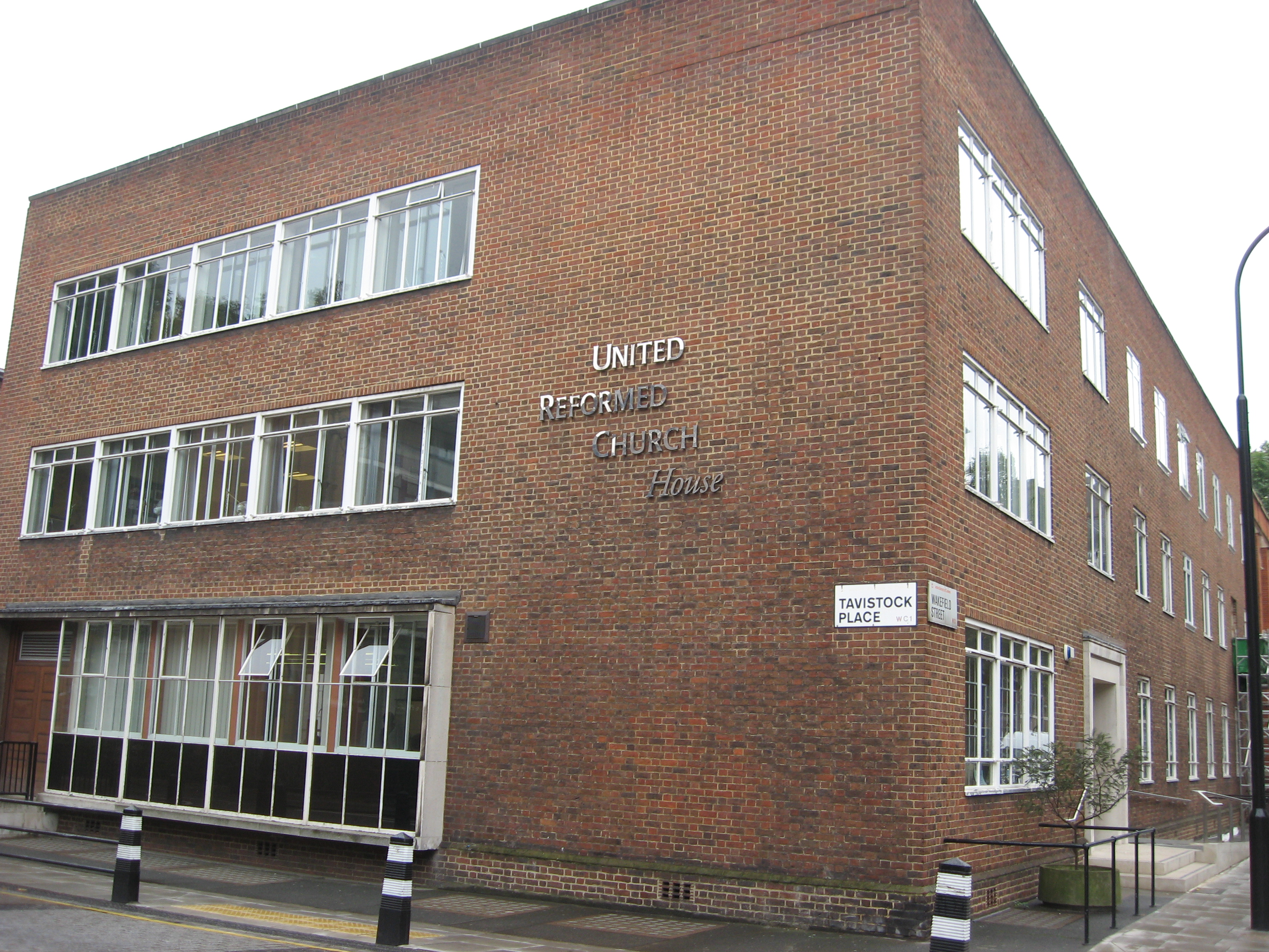 The United Reformed Church House in Tavistock Place, Camden, London is the headquarters of the United Reformed Church.